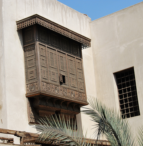 The House of Suhaymi in Cairo. One of the Mashrabiyas